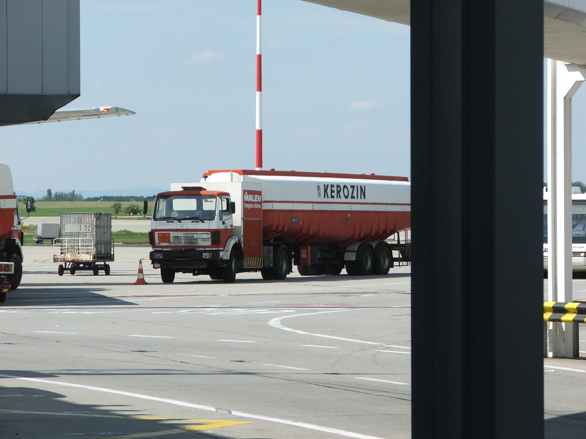 Kerosene refueller truck at Ferihegy Airport (LHBP), Budapest.